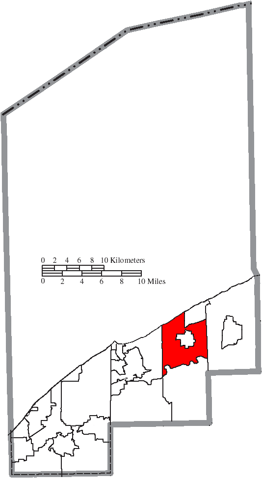 Map of the municipal and township boundaries of Lake County, Ohio, United States, as of the 2000 census, with the location of Perry Township highlighted. Township borders are shown only in unincorporated areas in order to differentiate incorporated and unincorporated areas more clearly.